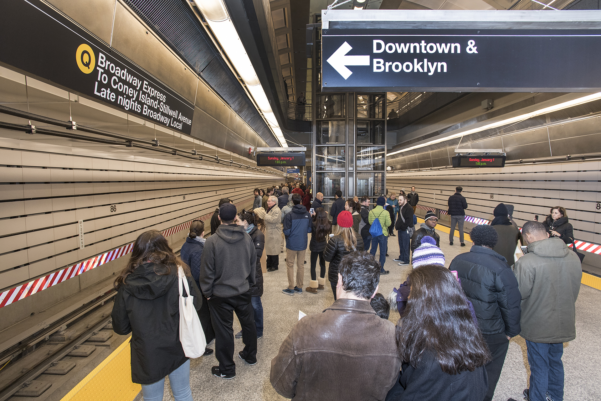 First riders aboard the Second Avenue Subway on January 1, 2017. Photo: Metropolitan Transportation Authority / Patrick Cashin